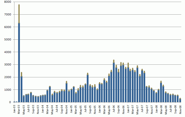 Graph of monthly casualties, compiled from 's database. Blue bars represent minimum, tan bars the maximum count (in case of uncertain numbers).